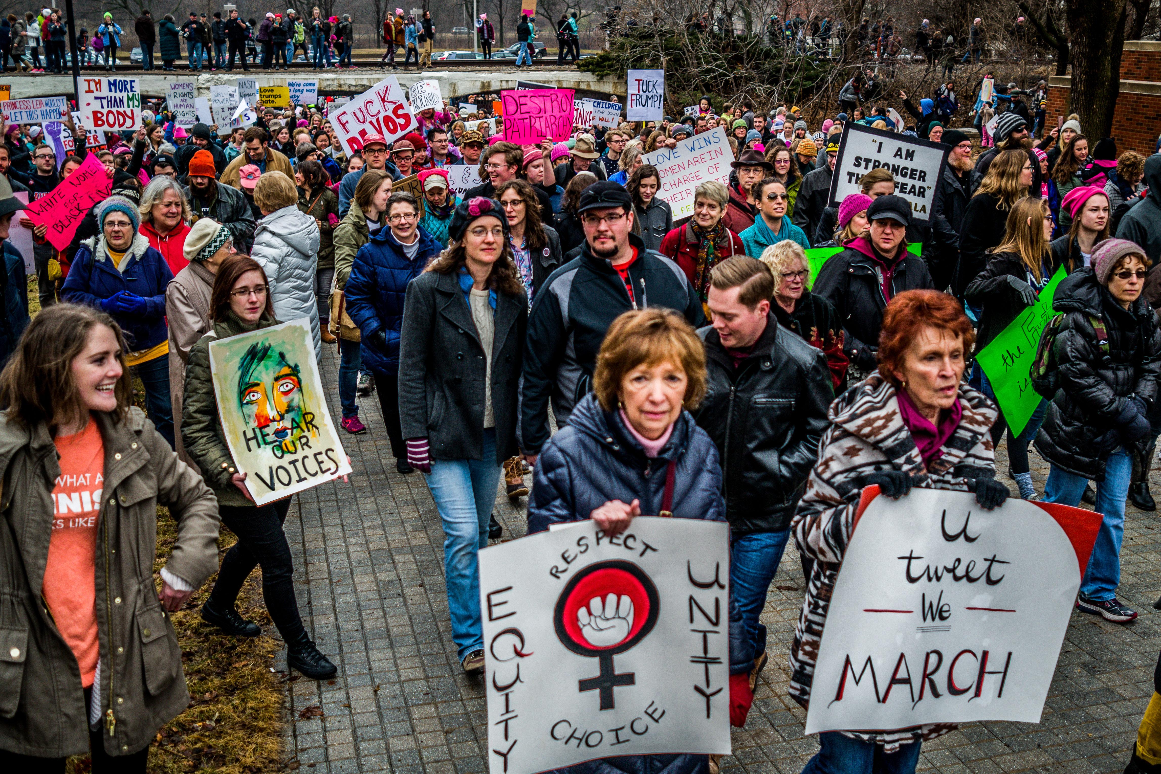 Photos from the Women's March in Iowa City, where more than 1,000 took part in an event to share concerns about the election of Trump. This event joined with hundreds of others around the nation and world as millions of people joined together to speak out against the authoritarian rhetoric of the new President.